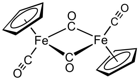 Main isomer of Fp2, without the Fe-Fe bond